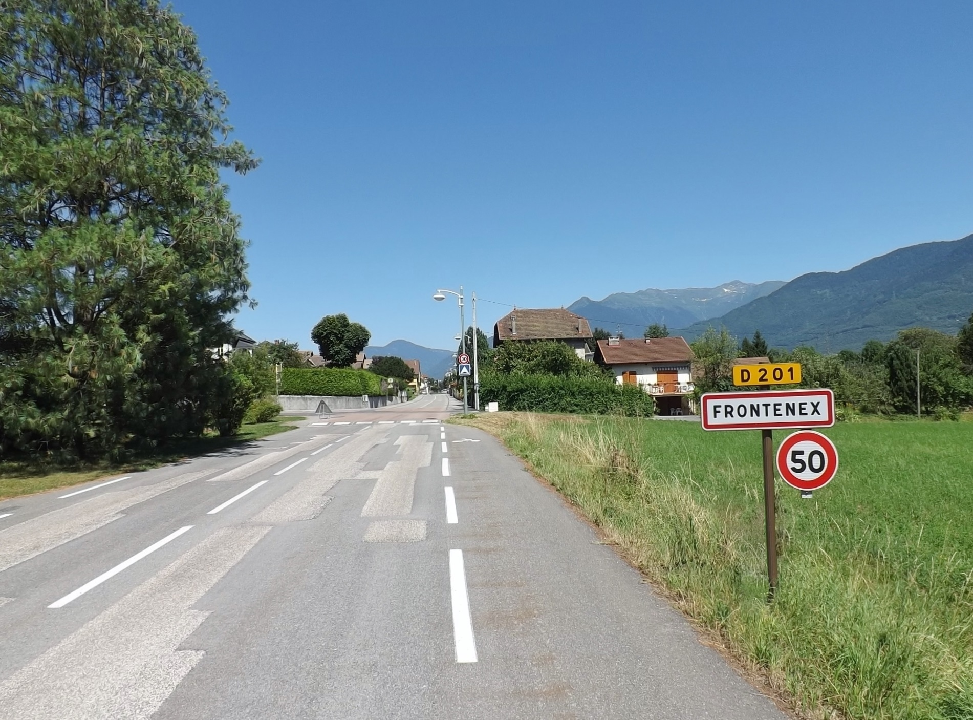 Welcoming sign to the French commune of Frontenex between Chambéry and Albertville in Savoie.